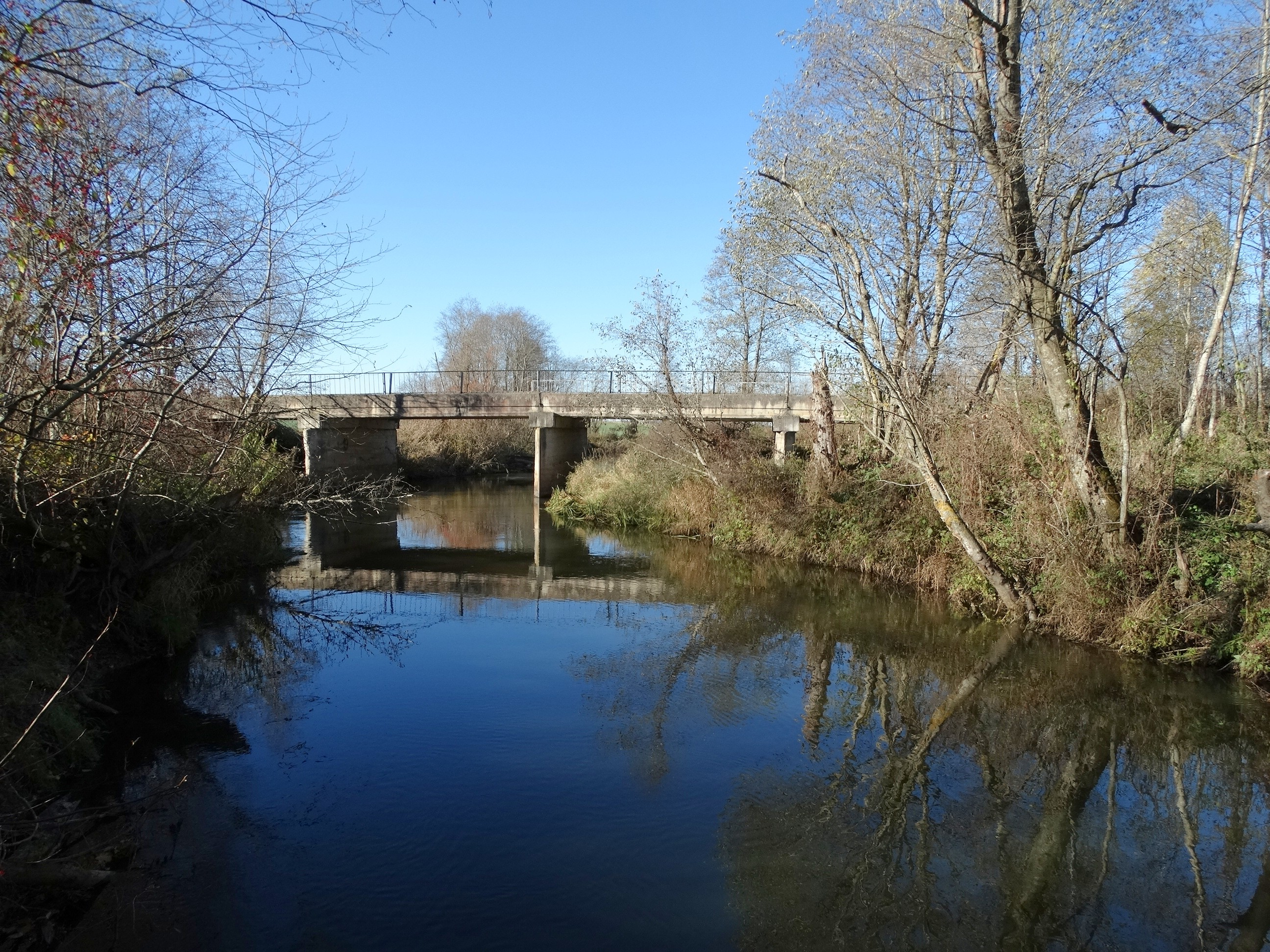 Verknė River, Prienai District, Lithuania